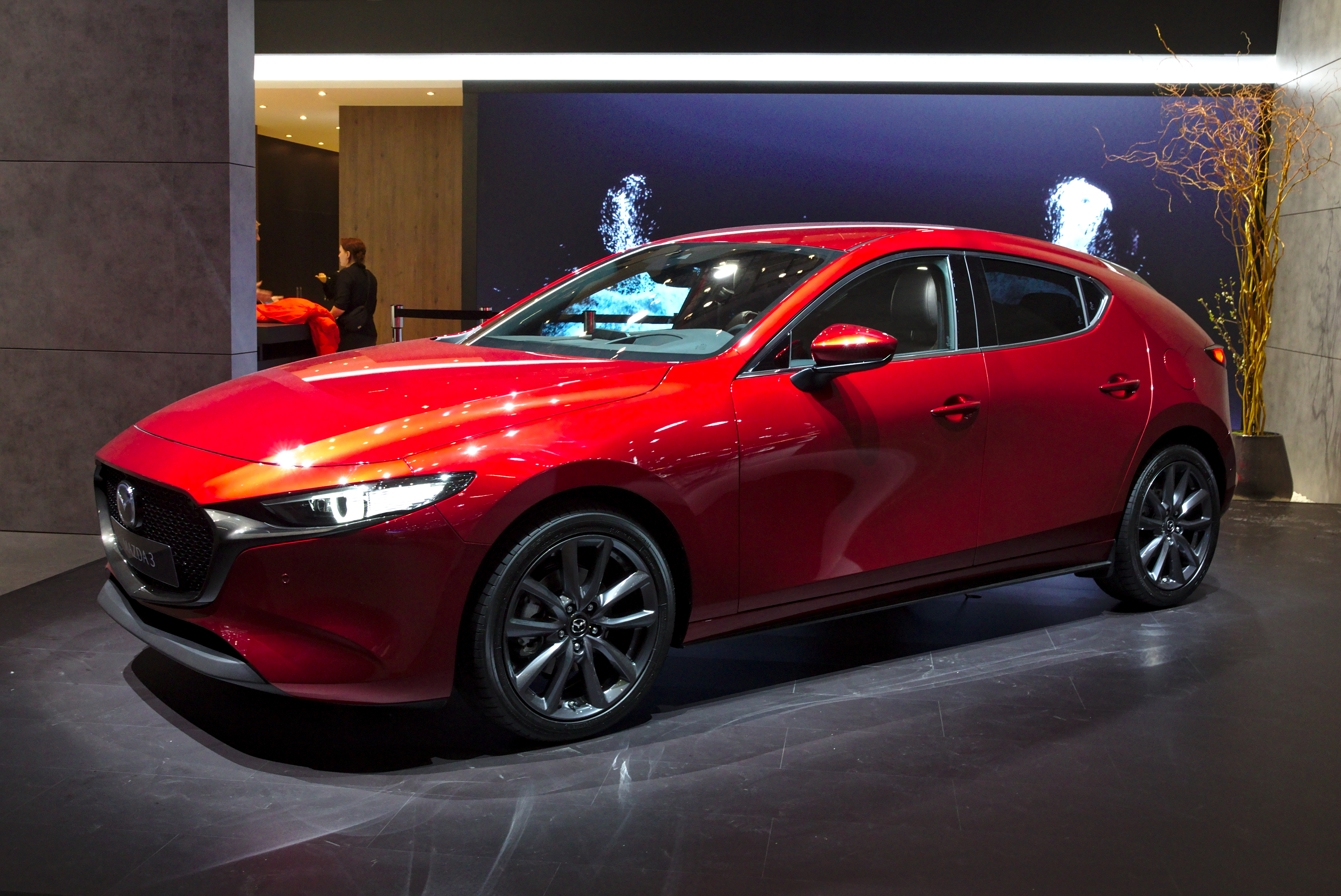 Mazda 3 at Geneva Motor Show 2019